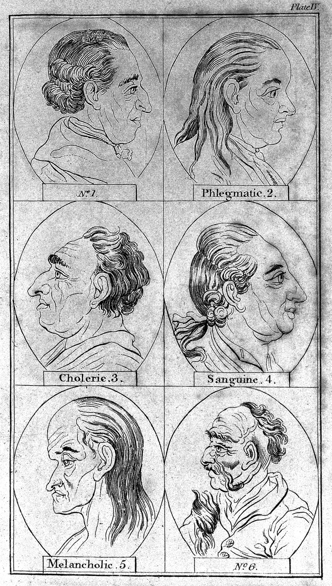 Temperaments. General Collections Keywords: Lavater, Johann Caspar